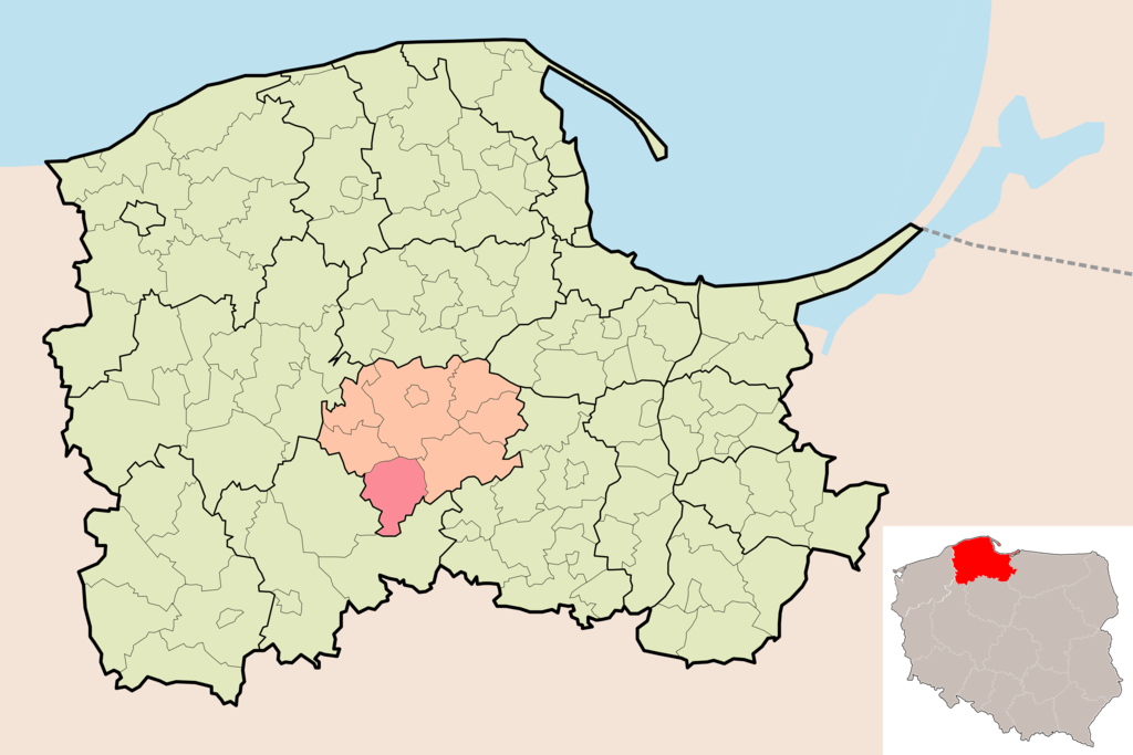 Locator map for communes (gmina) in pomorskie, with powiat highlighted Map - PL - powiat koscierski - Karsin.PNG